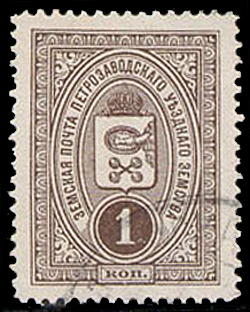 Petrozavodski rural stamp, 1901, 1k.